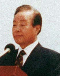 김영삼 (Kim, Young Sam). Cropped from a photo with the caption: ID: DA-SC-98-04088 Service Depicted: Other Service A1501-SCN-96-0013001 United States President William J. Clinton and South Korean President Kim Yong Sam at podium in Chejudo.(Exact date unknown)